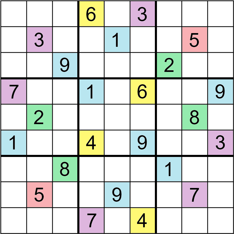 A 24-clue sudoku puzzle with total symmetry by Rico Alan.